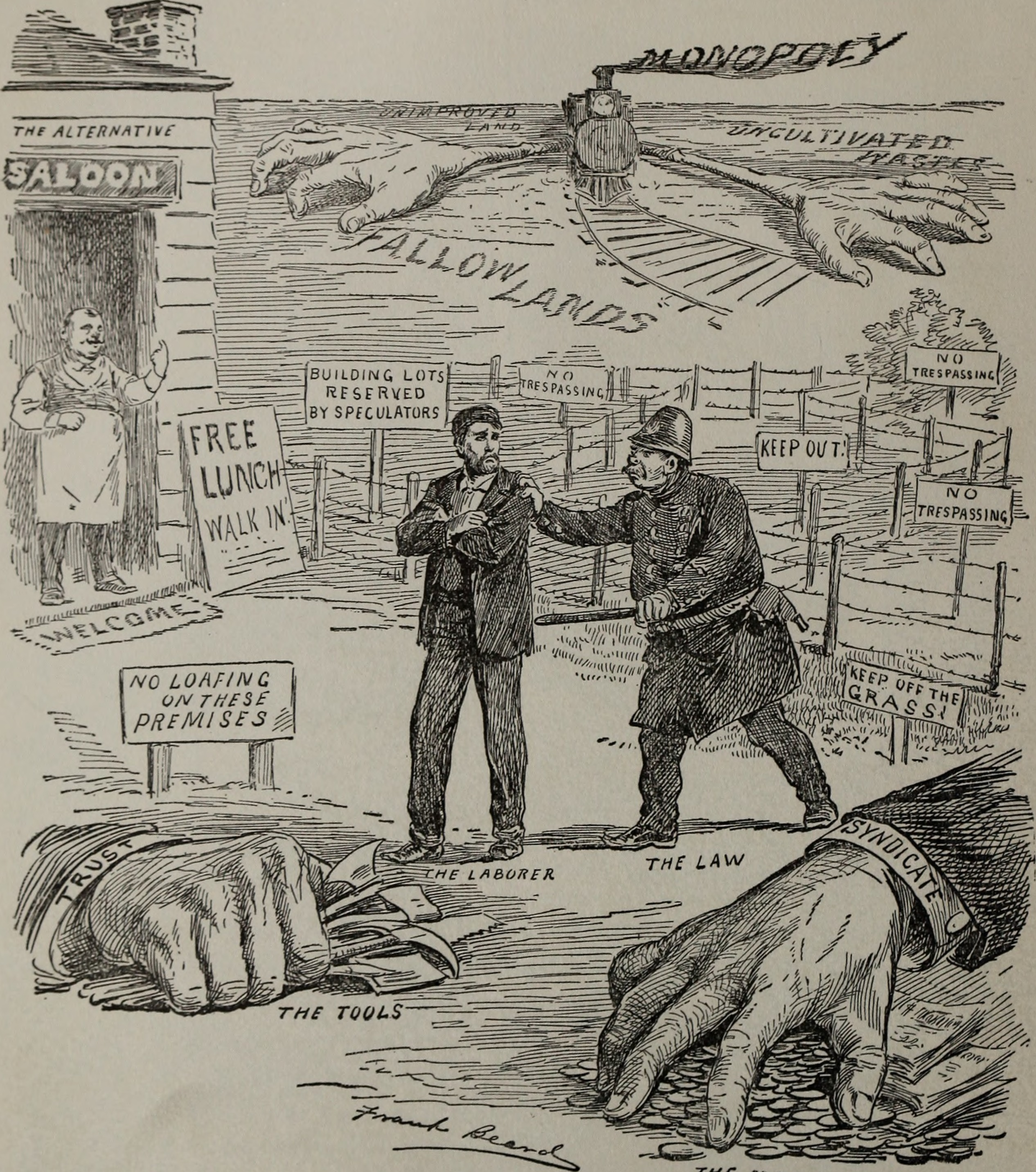 Title: "Blasts" from The Ram's Horn Year: 1902 (1900s) Authors: Subjects: Poetry Publisher: Chicago, The Ram's Horn Co. Text Appearing Before Image: 14 Blasts From The Rams Horn. THE PANIC OF 1893. Text Appearing After Image: THE POOR MANS ALTERNATIVE Blasts From The Rams Horn. 15 NO HARD TIMES IN HEAVEN. Banks may fail, and times grow ha/derThan were able to endure, Yet we smile when we rememberLoves investments are secure. 12 your heart gets cold some-body else will freeze todeath. The man whosereligion costs himnothing pays for allhe gets. People who have nocharity for the faults ofothers are generally stoneblind to their own.